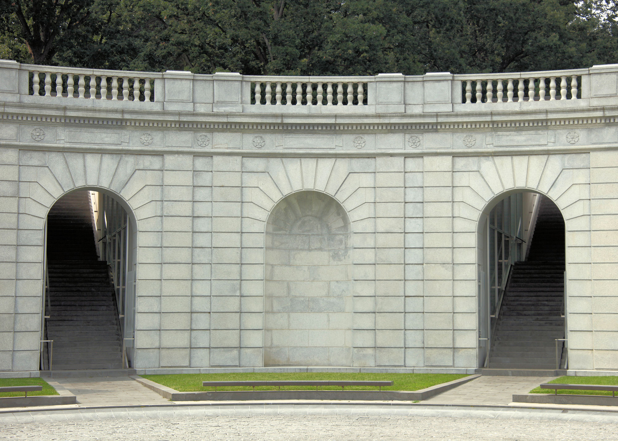 A view of the Women in Military Service for America Memorial. Originally known as the Hemicycle, this ceremonial entrance to Arlington National Cemetery was opened in 1932. Along the Arlington Memorial Bridge and the George Washington Memorial Parkway (then known as the Mount Vernon Memorial Parkway), it was constructed in celebration of the bicentennial of George Washington's birthday. Unfinished, unused, and in disrepair by the early 1980s, it was transformed into the Women in Military Service for America Memorial and opened to the public on October 20, 1997. This image shows two of the access stairs which were pierced through panels in the front of the Hemicycle in 1997. An original apse, as yet undecorated with artwork, remains between them. Grass has replaced stonework between the stairwells, and a low, black marble meditative bench exists in front of each grassy area.